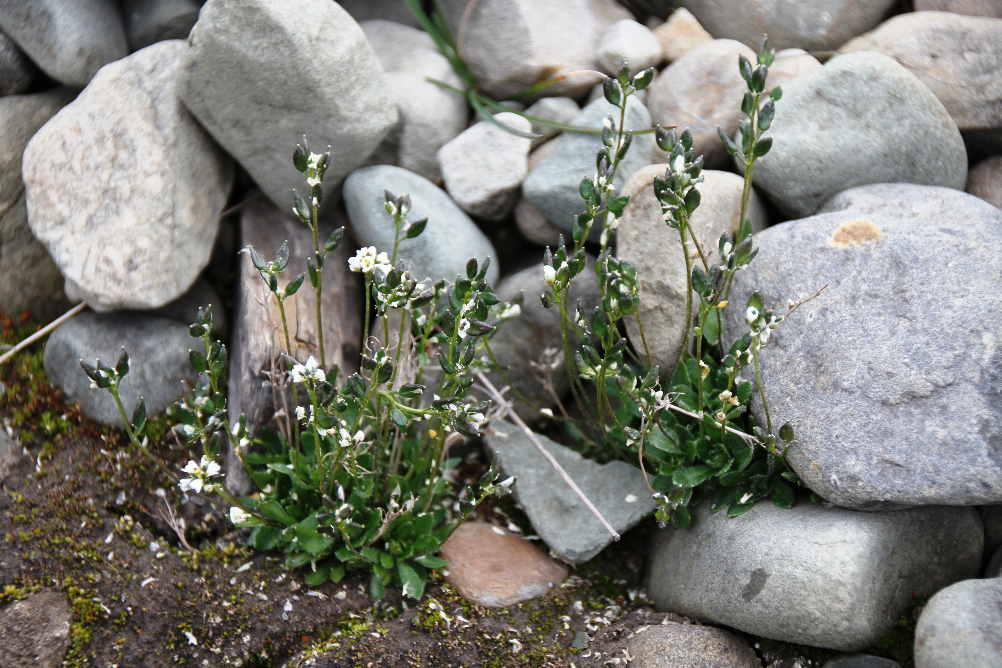 Photo of plant nearby Longyearbyen, Spitsbergen (Norway)